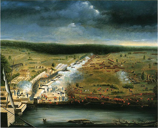 Painting by Jean Hyacinthe de Laclotte, eyewitness to the Battle of New Orleans